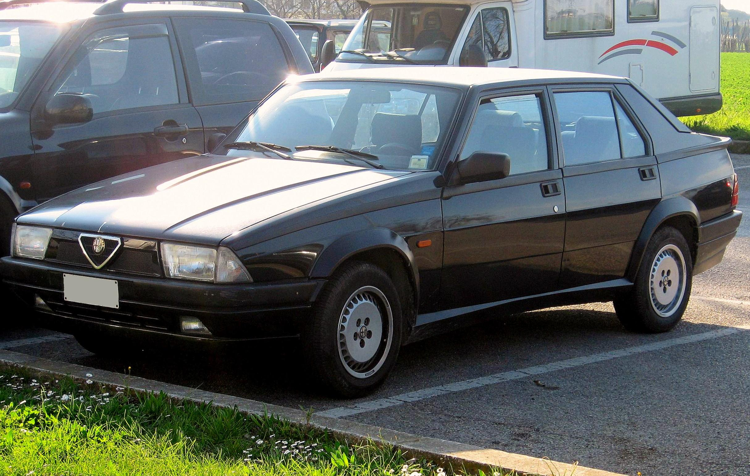 Subject: Alfa Romeo 75 Author: Luc106 Date: 18 march 2007 City/Country: Forlì (Italy) Event: Old Time Show I release all rights in the public domain.